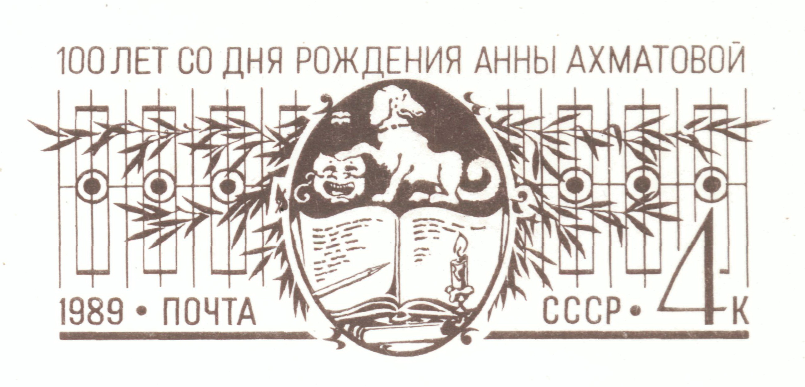 Soviet preprinted (original) stamp of 4 kopecks, 1989. Anna Akhmatova. Detail of a postcard of the Soviet Union (postal stationery).